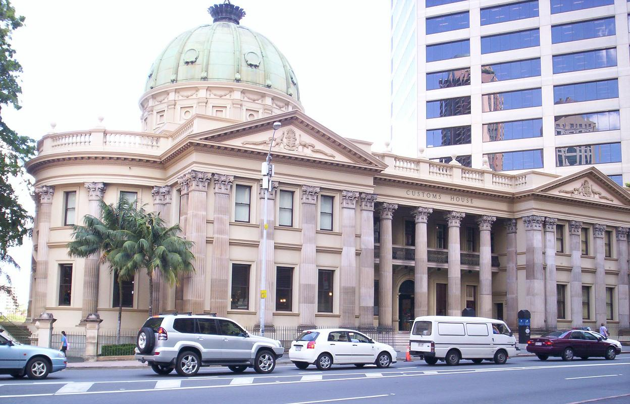 Customs House, Brisbane - taken during the early afternoon ( this photograph was taken by Figaro )